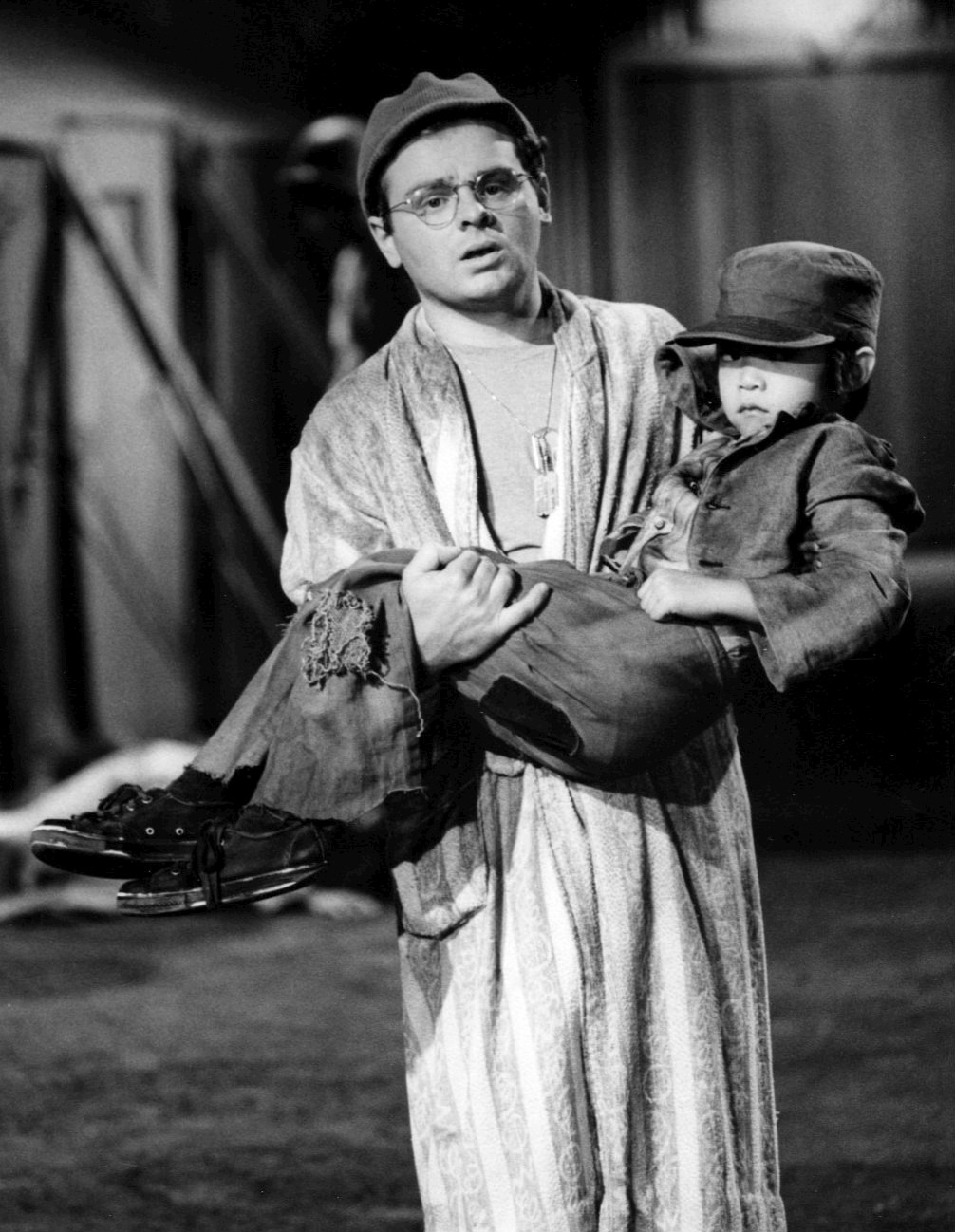 Photo of Gary Burghoff as Radar from the television program M*A*S*H. When the 4077th moves the residents of an orphanage to its camp due to enemy fire, Radar pitches in to help.